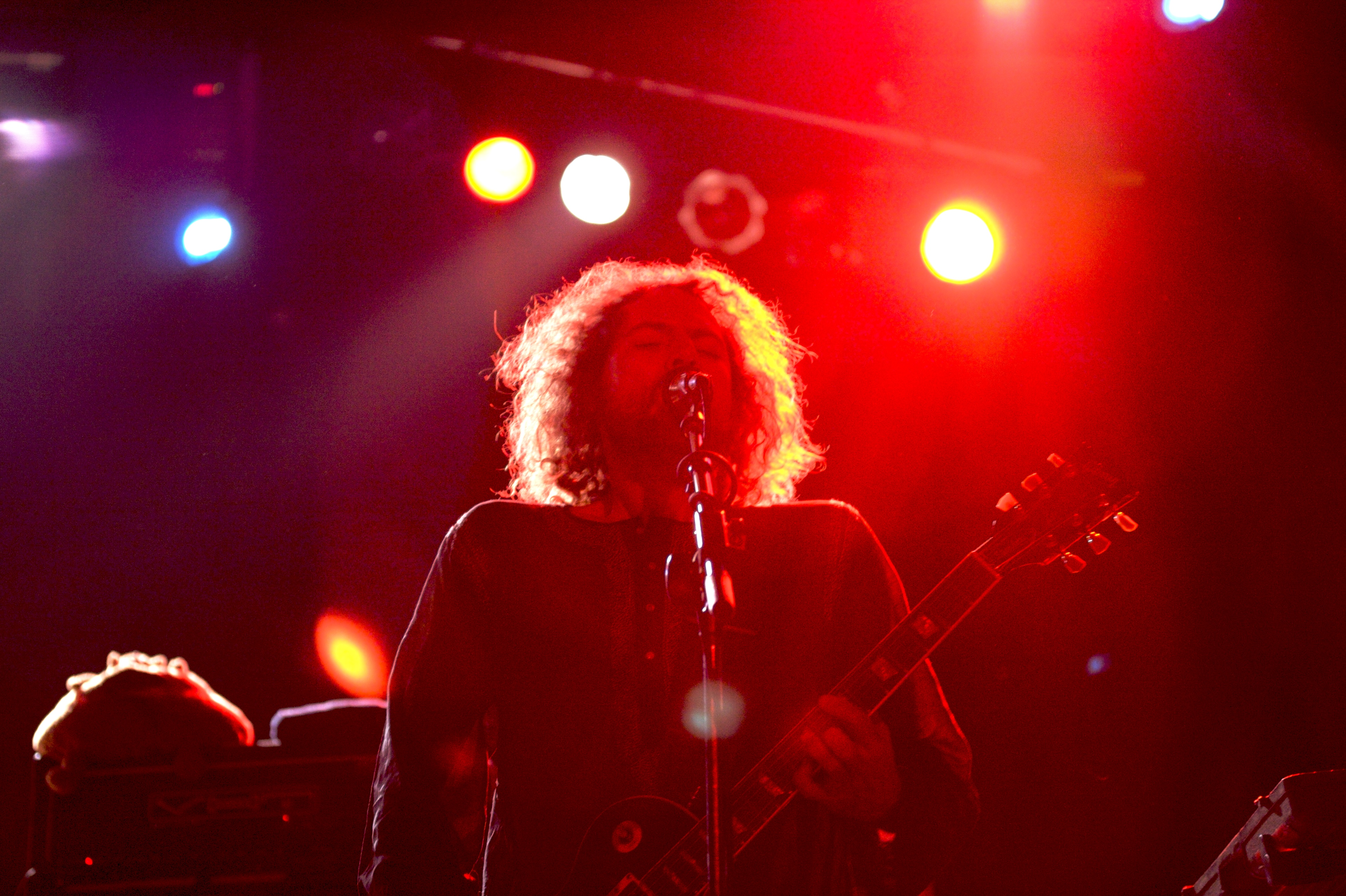 B.C. Meyer did vocals on "Gentle Time"